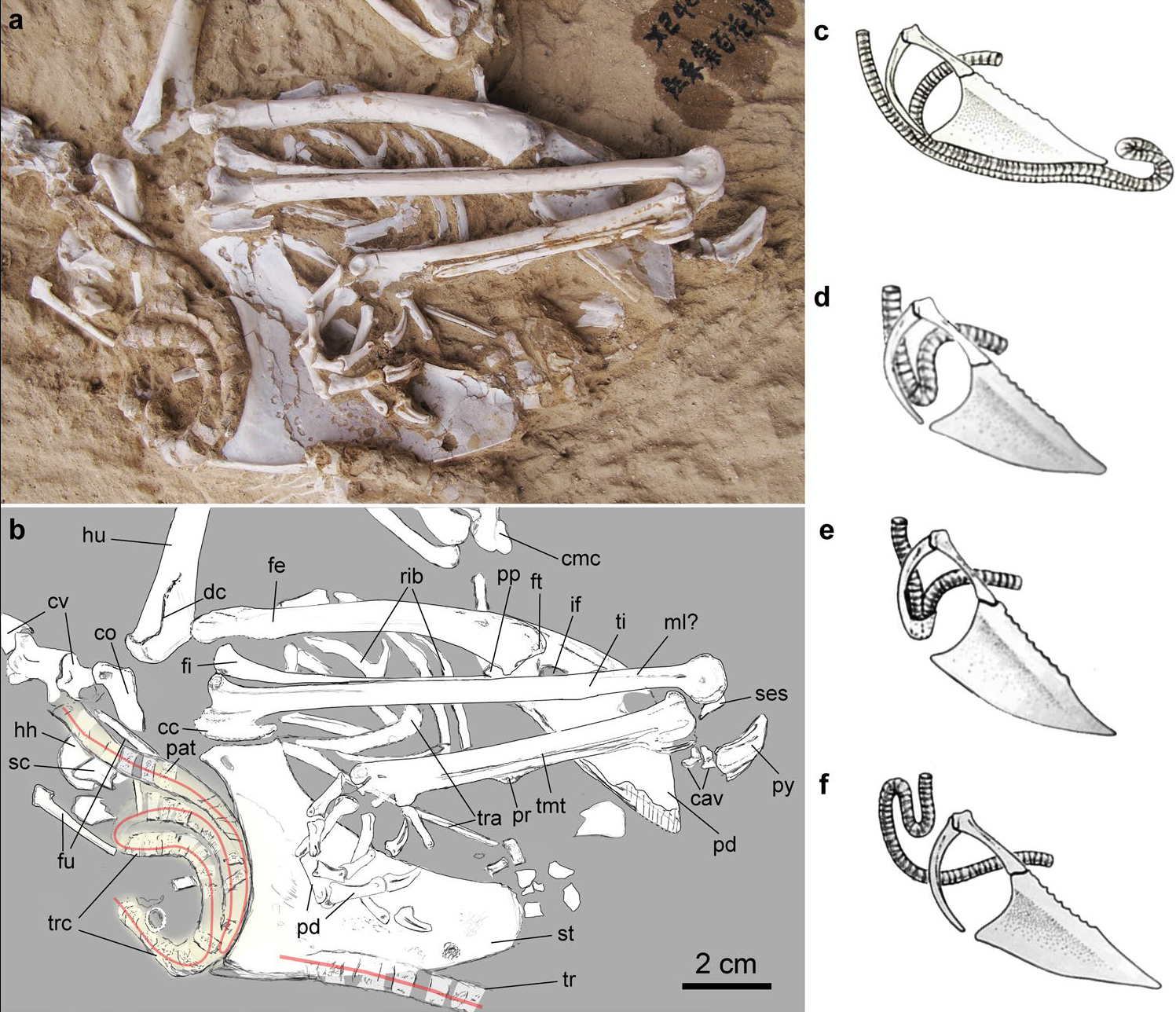 Photo and line drawing of the thoracic region of the holotype specimen of Panraogallus hezhengensis (HMV 1876). The tracheal loop is indicated by the red line and compared with that in the Helmeted curassow (Pauxi pauxi) (c), Black curassow (Crax alector) (d), Crested guineafowl (Guttera pucherani) (e), and Wood grouse (Tetrao urogallus) (f), which are adapted from ref.48. Anatomical abbreviations: cav–free caudal vertebrae, cc–cnemial crest, cmc–carpometacarpus, dc–deltopectoral crest, fi–fibula, ft–femur trochanteric crest, fu–furcula, hh–humeral head, if–ilioischiadicum foramen, ml?–muscular line, pat–patches, pd–pedal digits, pp–preacetabular process, py–pygostyle, pr–projection for the spur attachment on the tarsometatarsus, ses–sesamoid bone, st–sternum, tr–tracheal ring, tra–trabecula, and trc–tracheal coiling/loop.